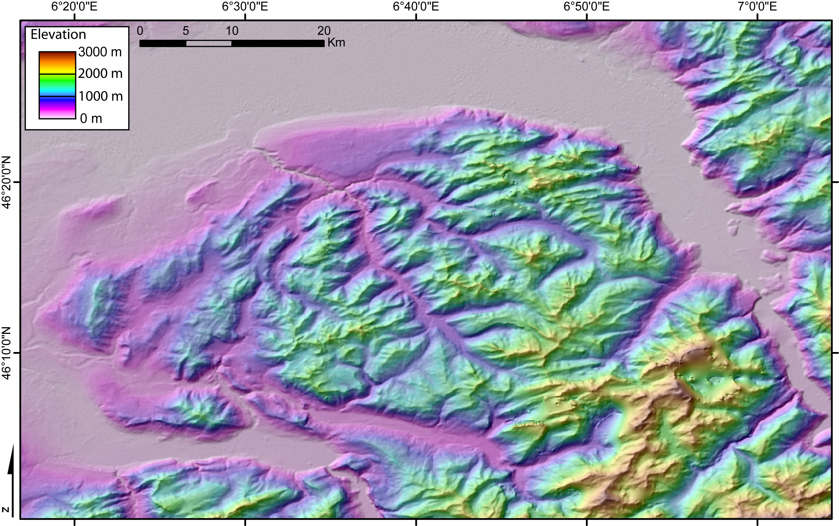 DEM of the Chablais massif (French and Swiss Alps) created by Jide from the 90m pixel size SRTM dataset. The flat area to the North is Lake Geneva. The Rhone valley is located to the East, and the wide valley to the South and SW is the Arve valley.